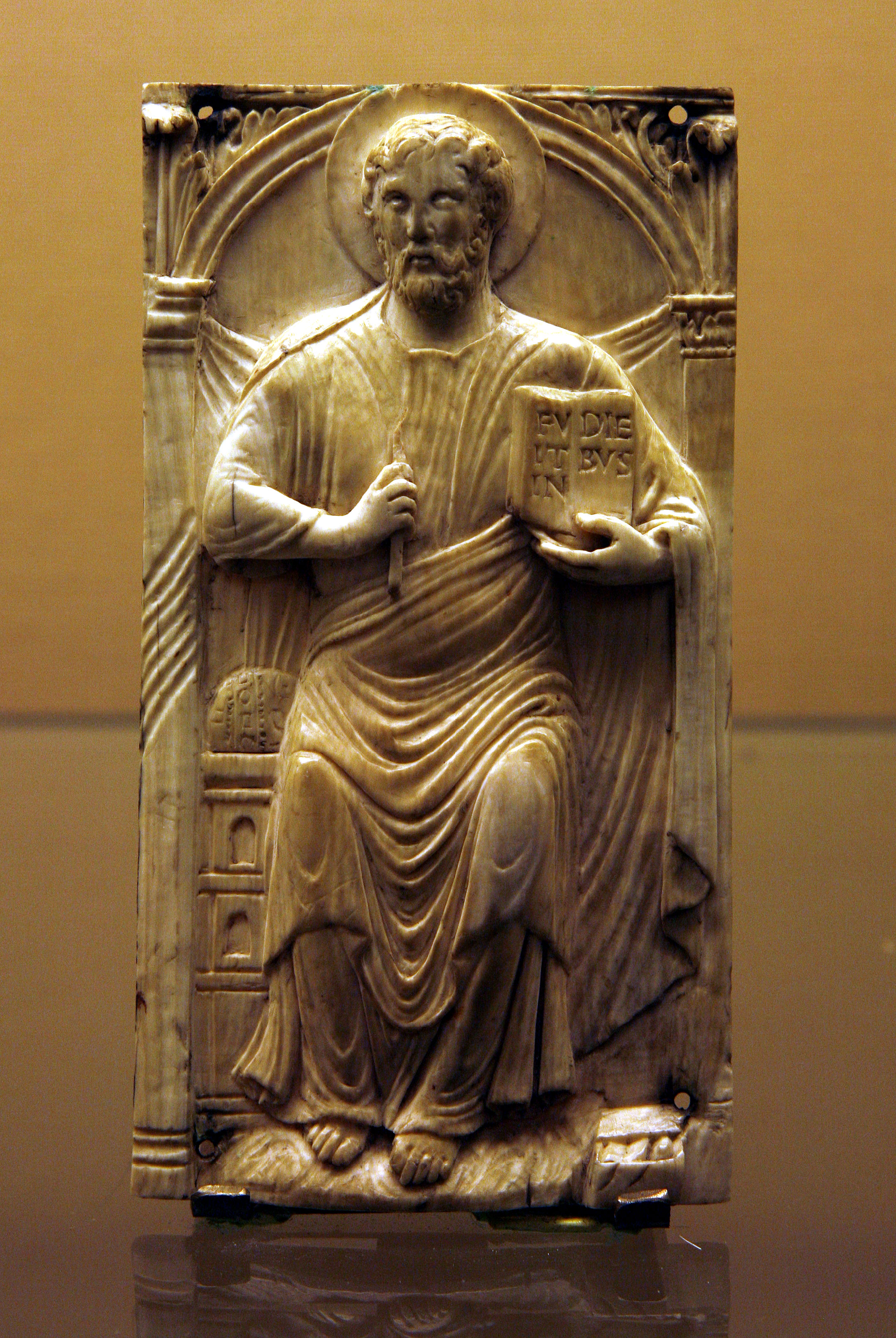 Saint Luke Workshop of the court of Louis the Pious, circa 820 Ivory On display at Dijon fine arts museum. Ref. number CA T 327